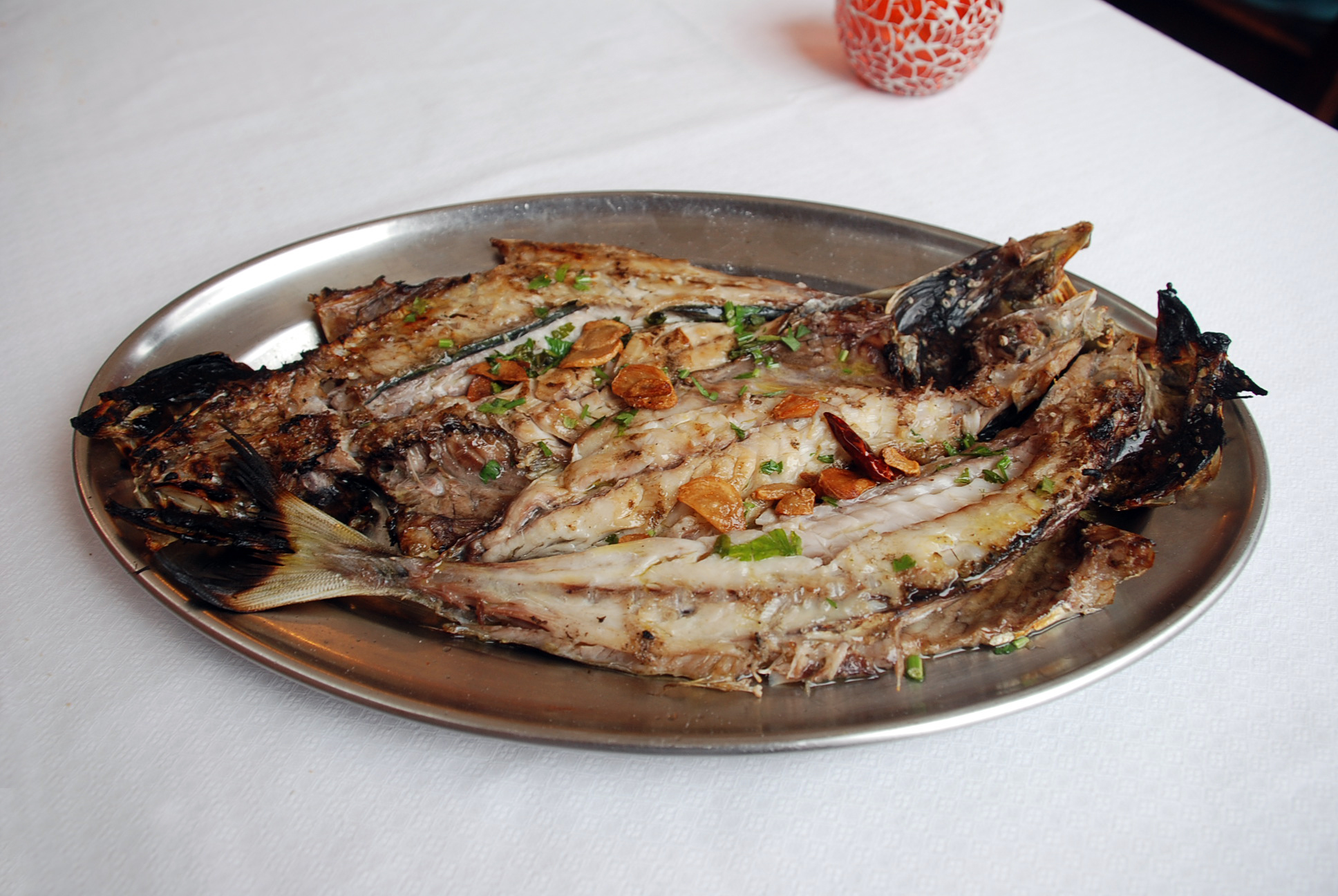 Roasted horse-mackerel with fried garlic and pepper (bilbaína).